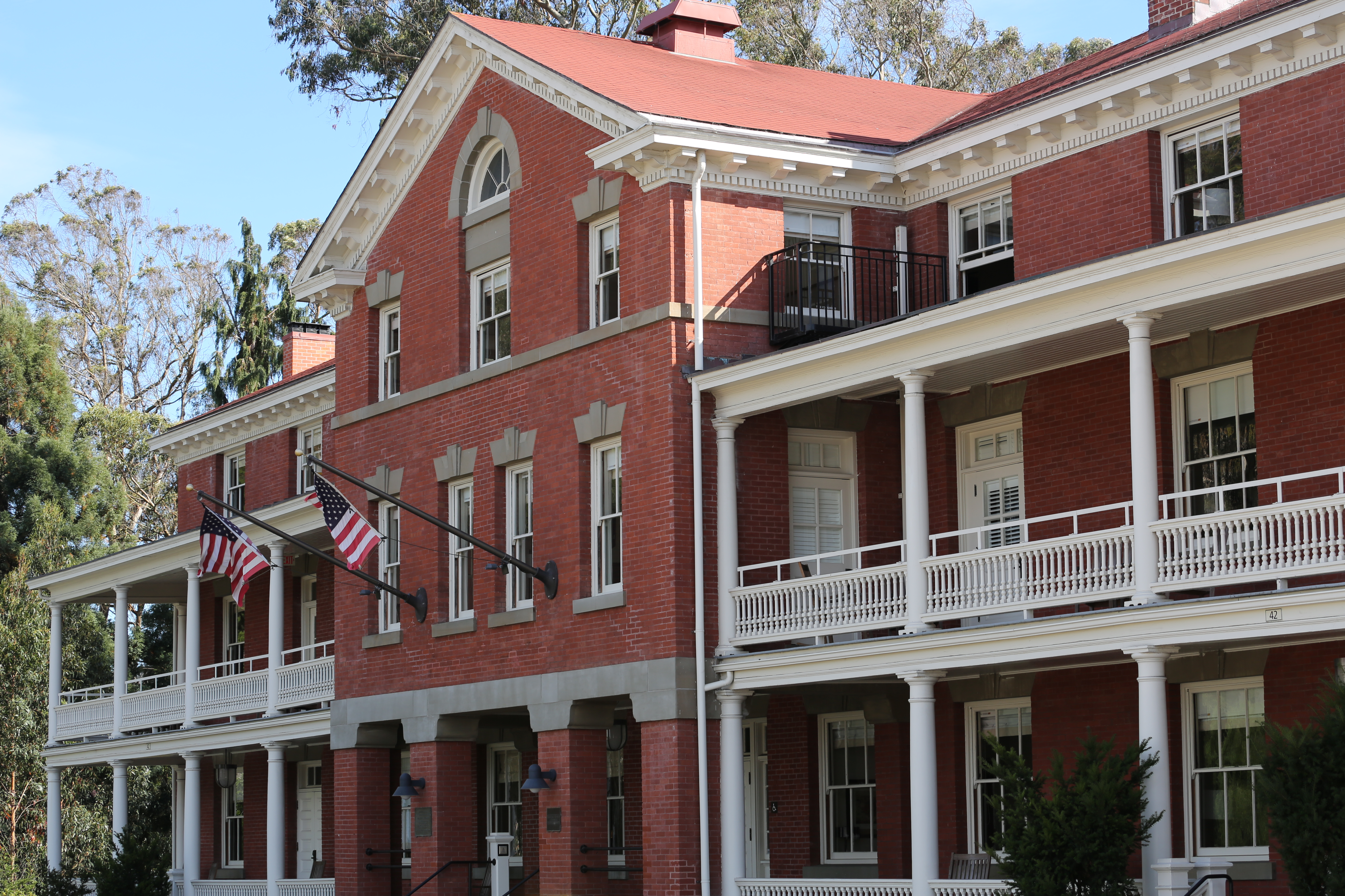 Inn at the Presidio (TK1)